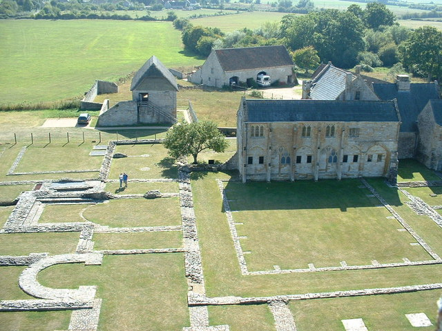 Ruins of Muchelney Abbey from the tower of the church